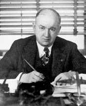 James G. Scrugham (Nevada Governor and US Senator)